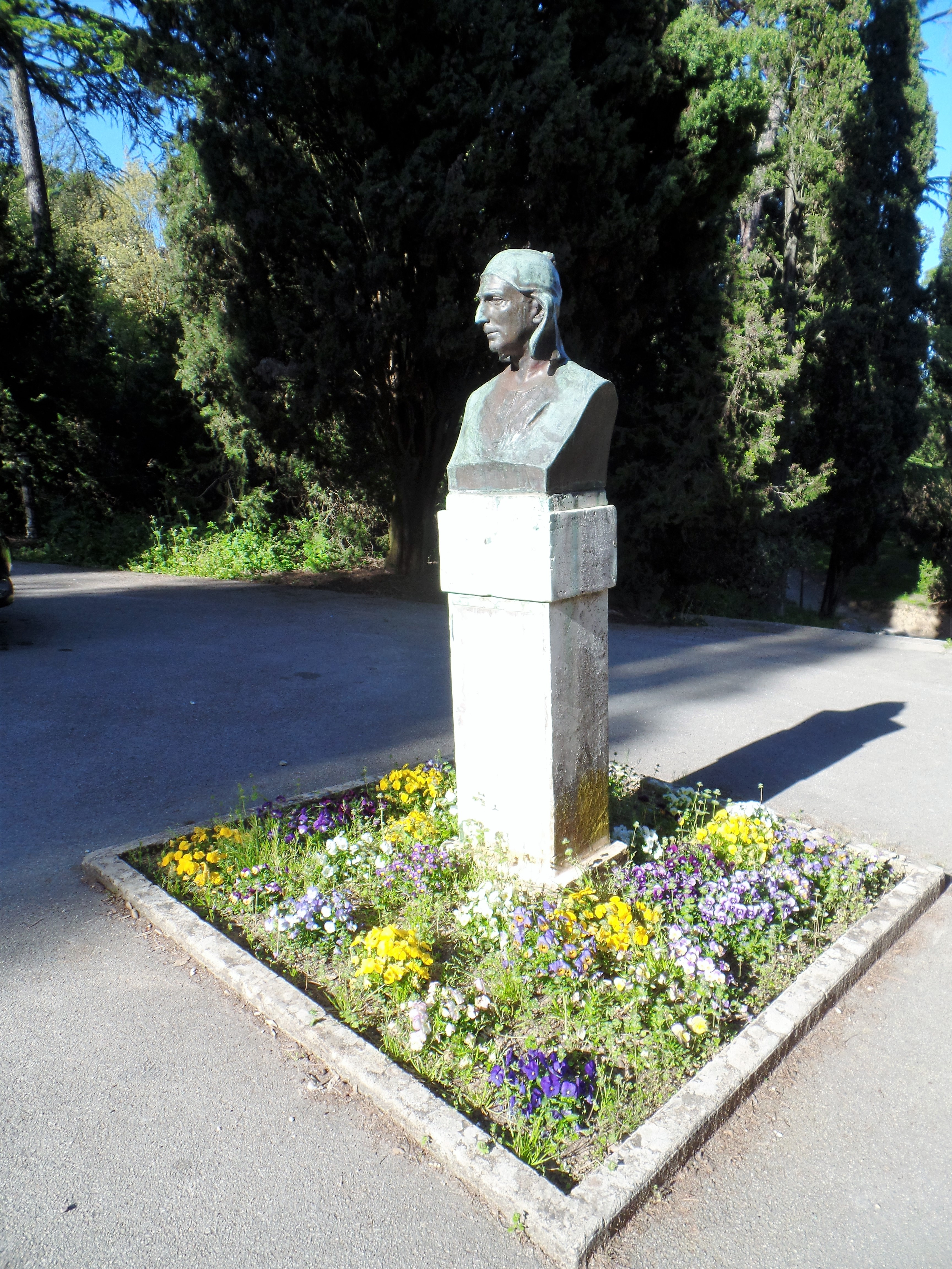 Vito Pardo - bronze in Parco di Castelfidardo AN Italy